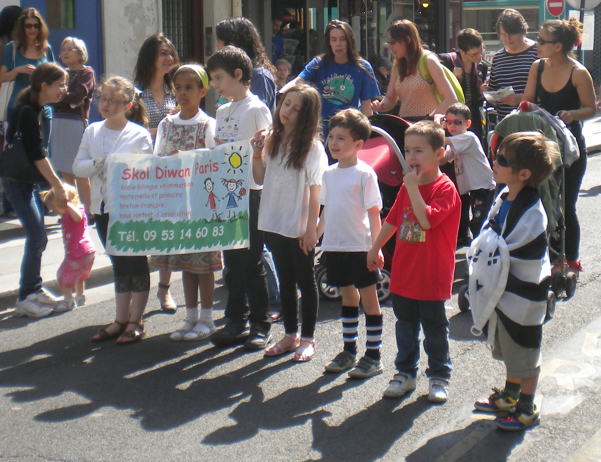 Children with a banner of the École Diwan de Paris/Skol Diwan Paris ("Diwan School of Paris")